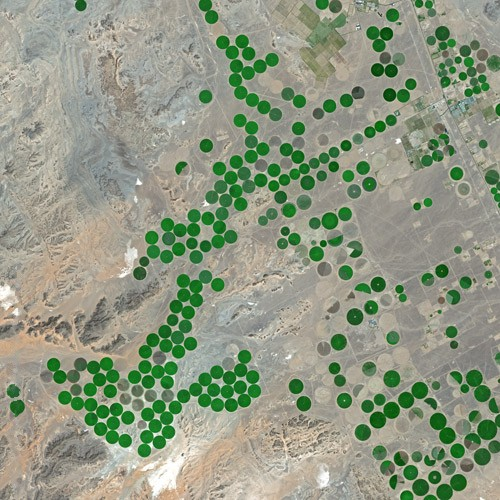 Tabuk by SPOT Satellite